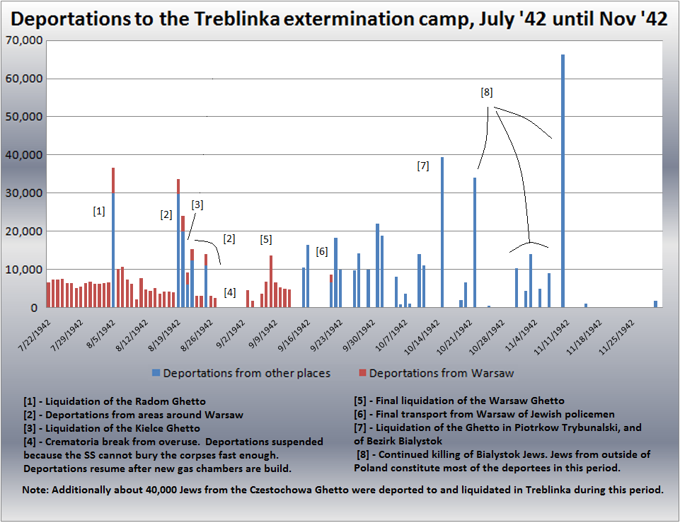 Graphs showing deportations to Treblinka death camp from July 1942 until November 1942